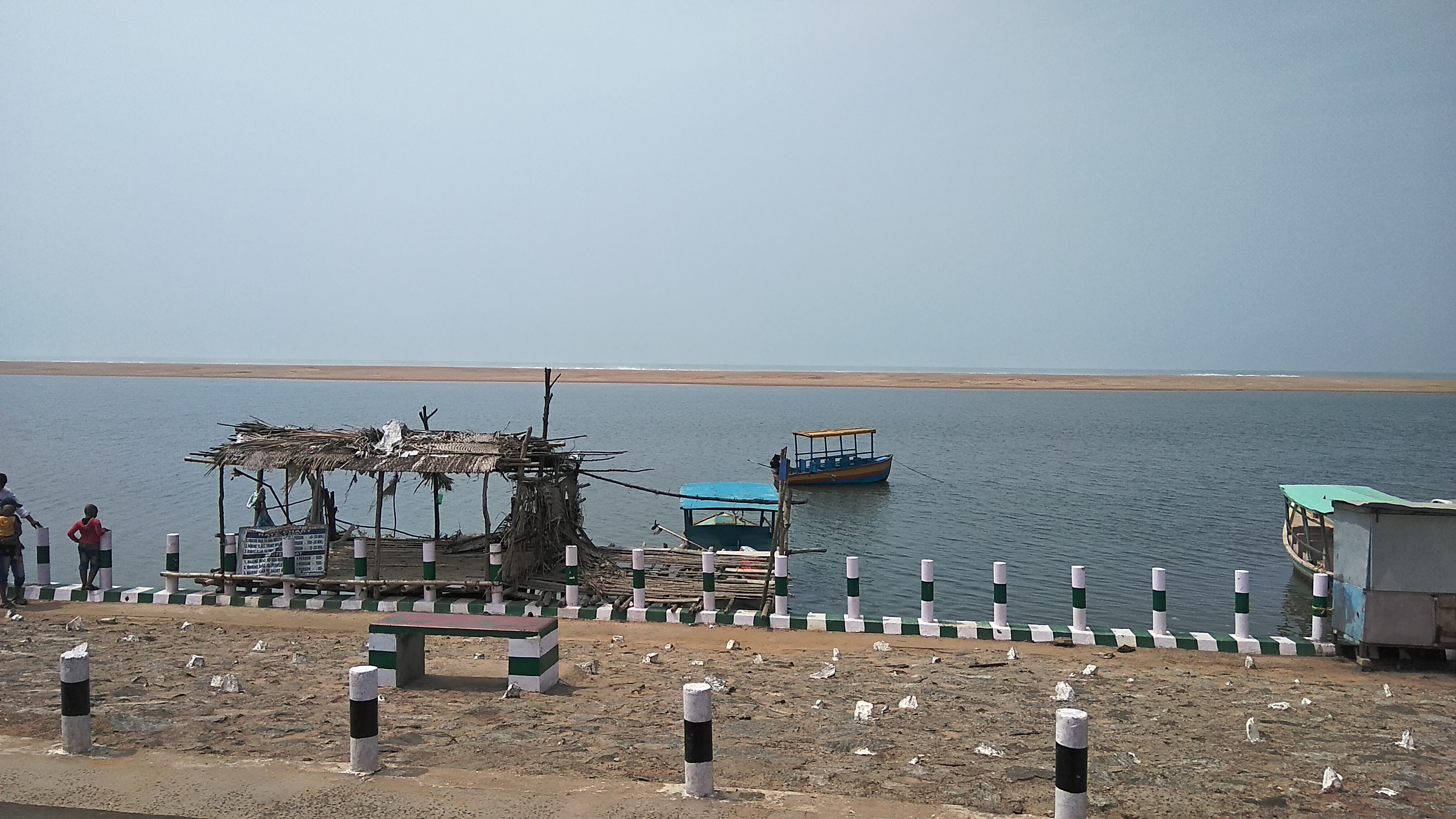 Chialka lake